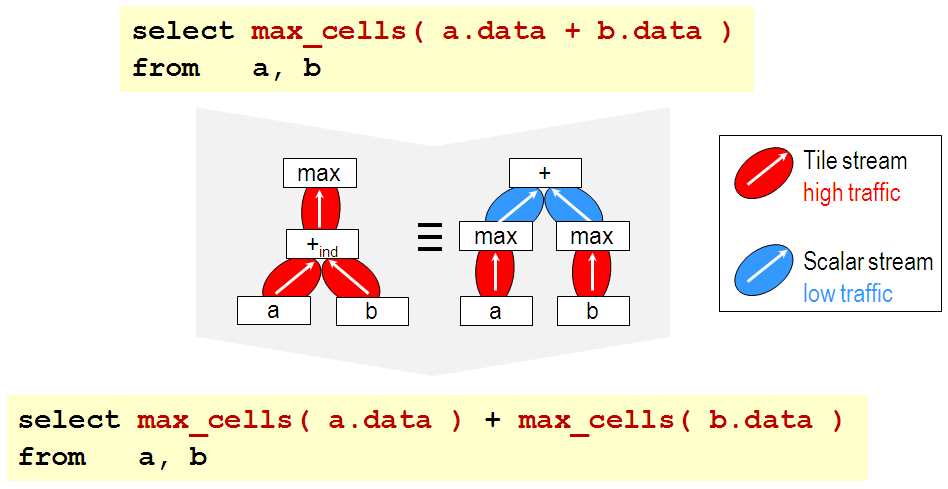 The algebraic equivalence shown in the downward arrow can lead to a significant performance improvement in an Array DBMS as the right-hand variant requires one (costly) tile stream less than the left-hand variant. Hence, transforming the upper version of the query into the lower one is an optimization that can improve response time.